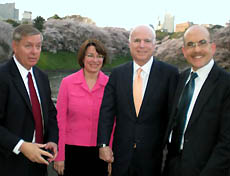 Lindsey Graham, Senator, Amy Klobuchar, Senator, and John McCain, Senator, did enjoying seeing cherry blossom with James Zumwalt, Charge d'Affaires, in Chiyoda Ward, Tōkyō Metropolis in April, 2009.